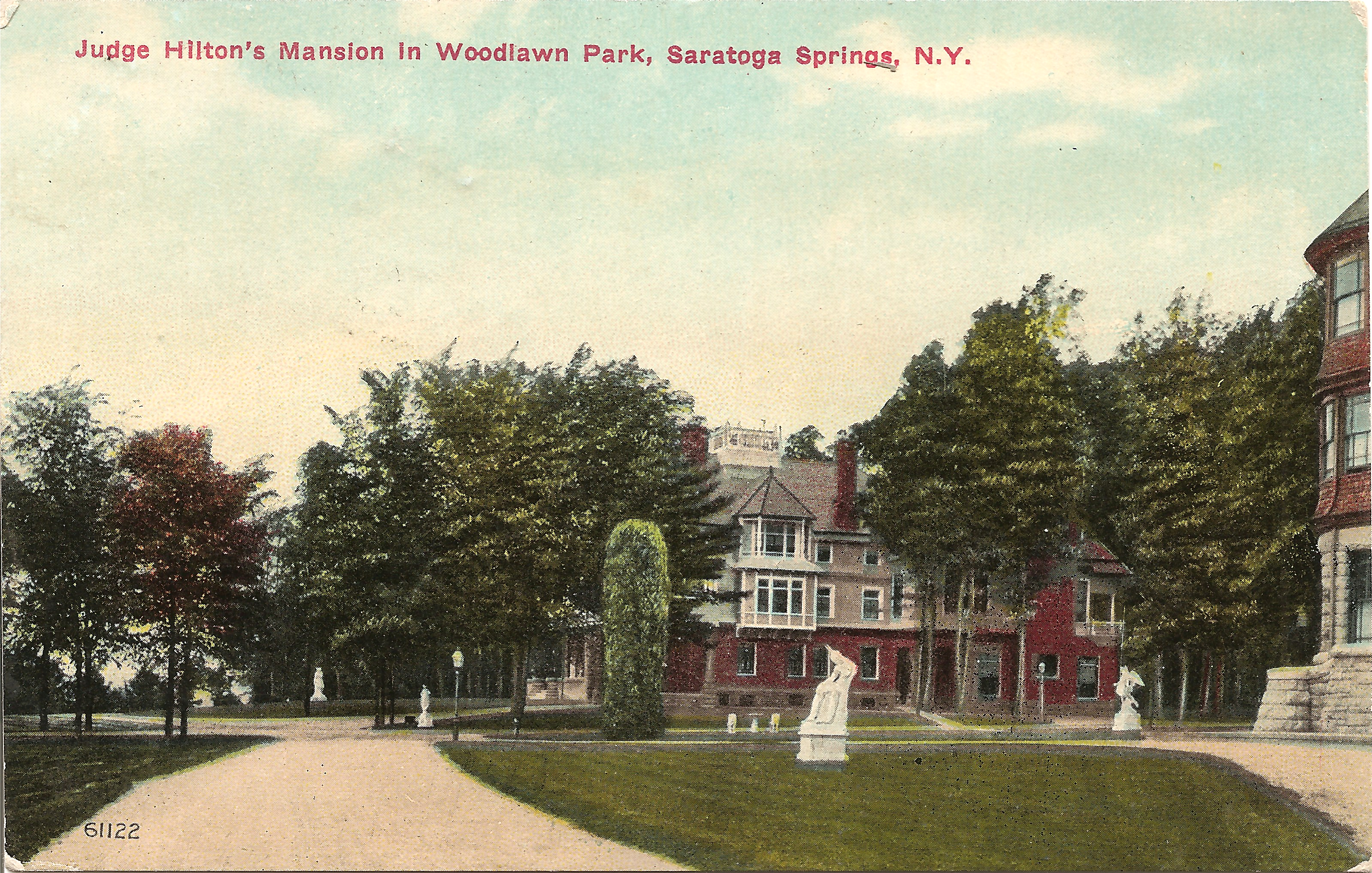 The Mansion was one of several large homes on the estate of Judge Henry Hilton in Saratoga Springs, NY. Portion of another home, The Wayside appears at far right.